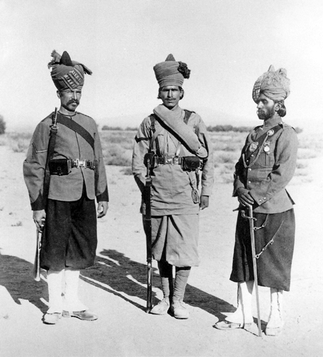 Men of 26th (Baluchistan) Regiment, Bombay Infantry (now 7 Baloch, Pakistan Army).